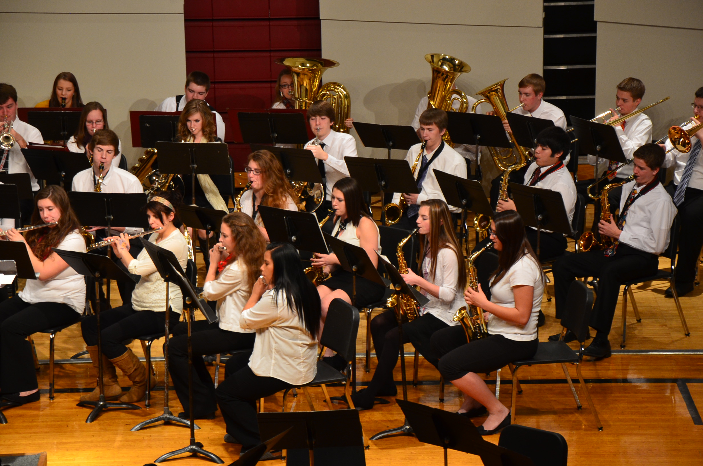 Concert band performing in 2013